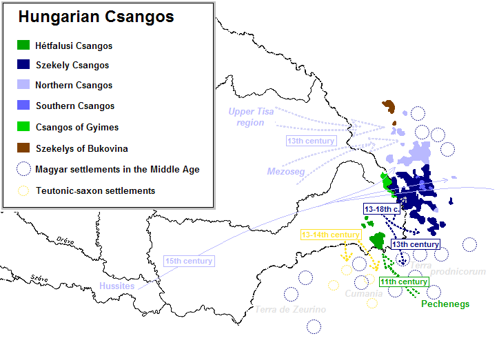 Map of Csangos movement trough centuries.